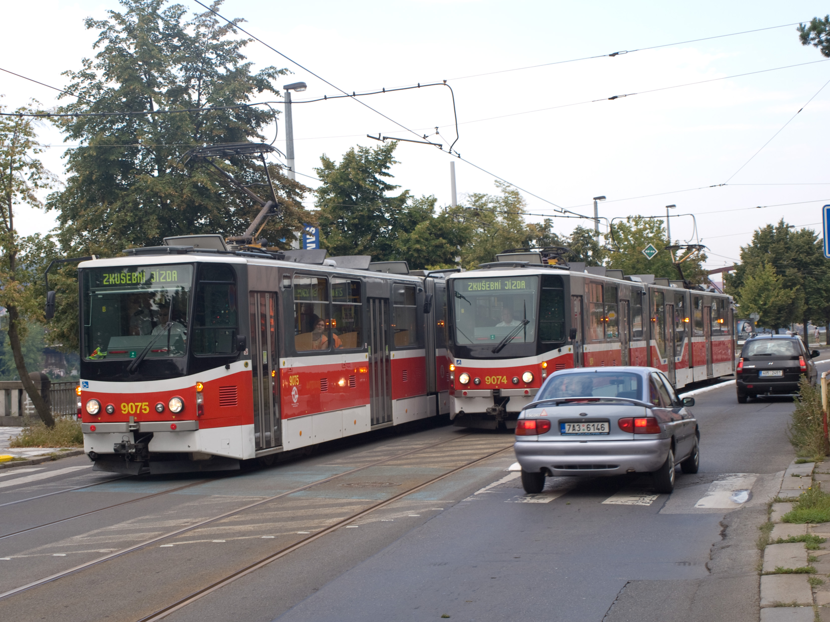 Two Tatra KT8D5R.N2P, final inspection of tram track Výtoň – Nádraží Braník, Prague